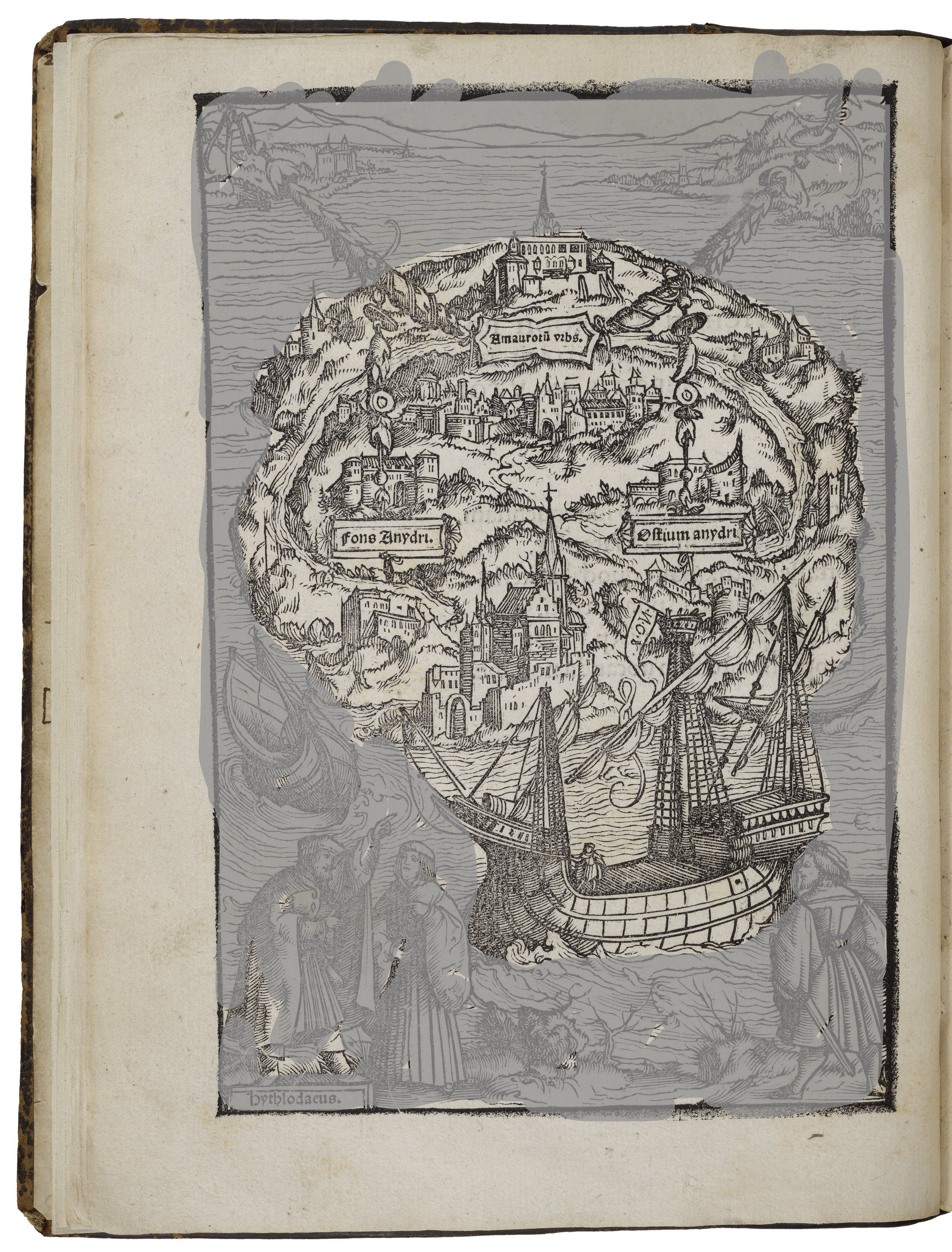 This is the map of Utopie island. Some critics and specialists argue that a skull was drawn and hide in the woodcut. (This map come from the 1518 november edition. This copy is owned by The Folger Shakespeare Library)